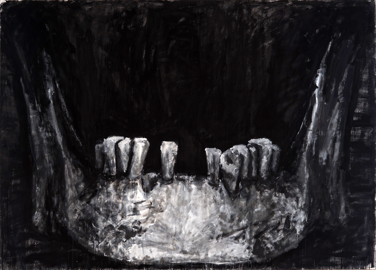 Josef Hnízdil, Big jaw-bone, 1994